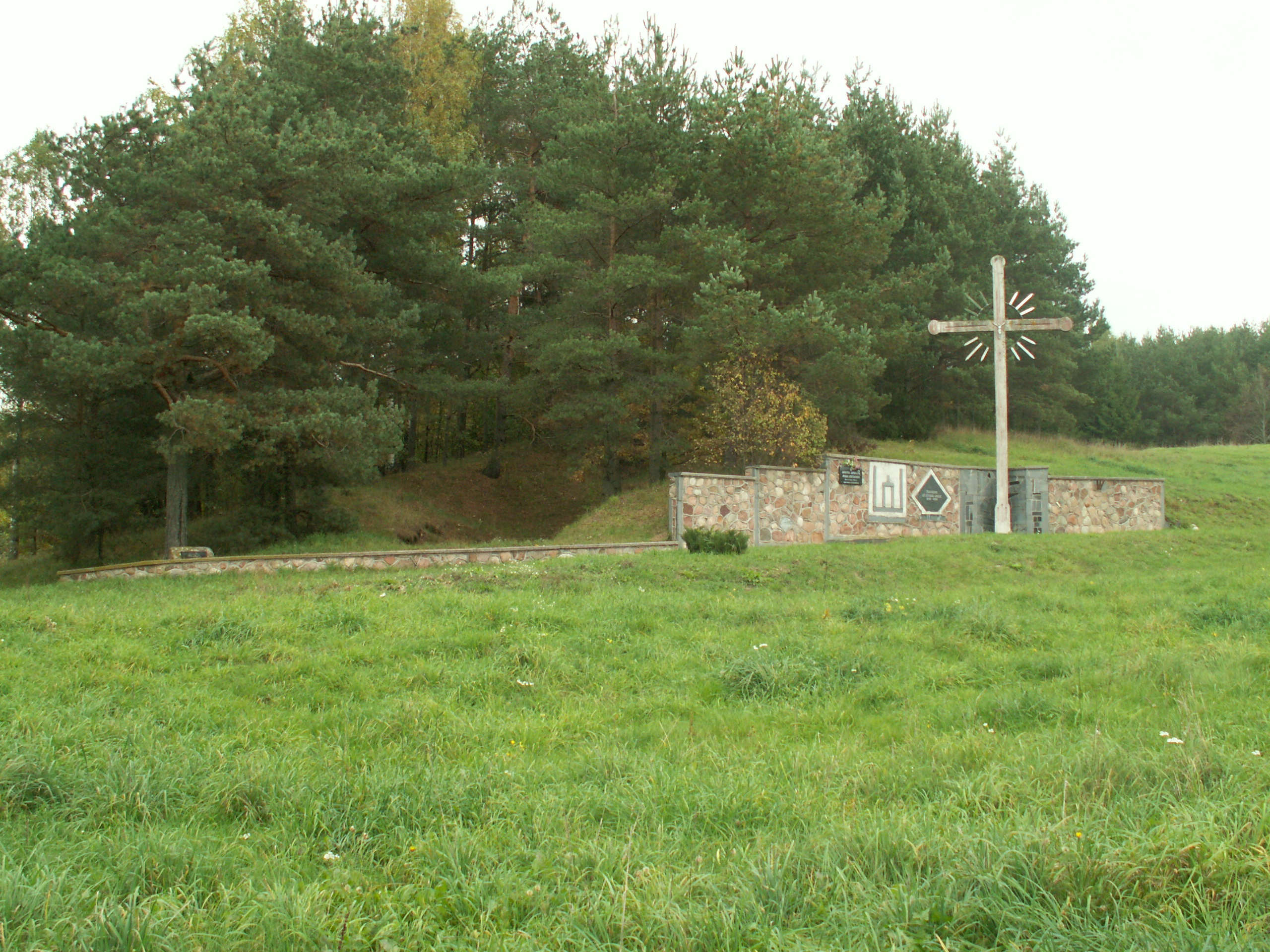 Žvainiai, Kretinga district, LithuaniaLietuvių: Paminklas Žemaičių apygardos partizanams, Žvainių k., Kretingos rajonas, Lietuva